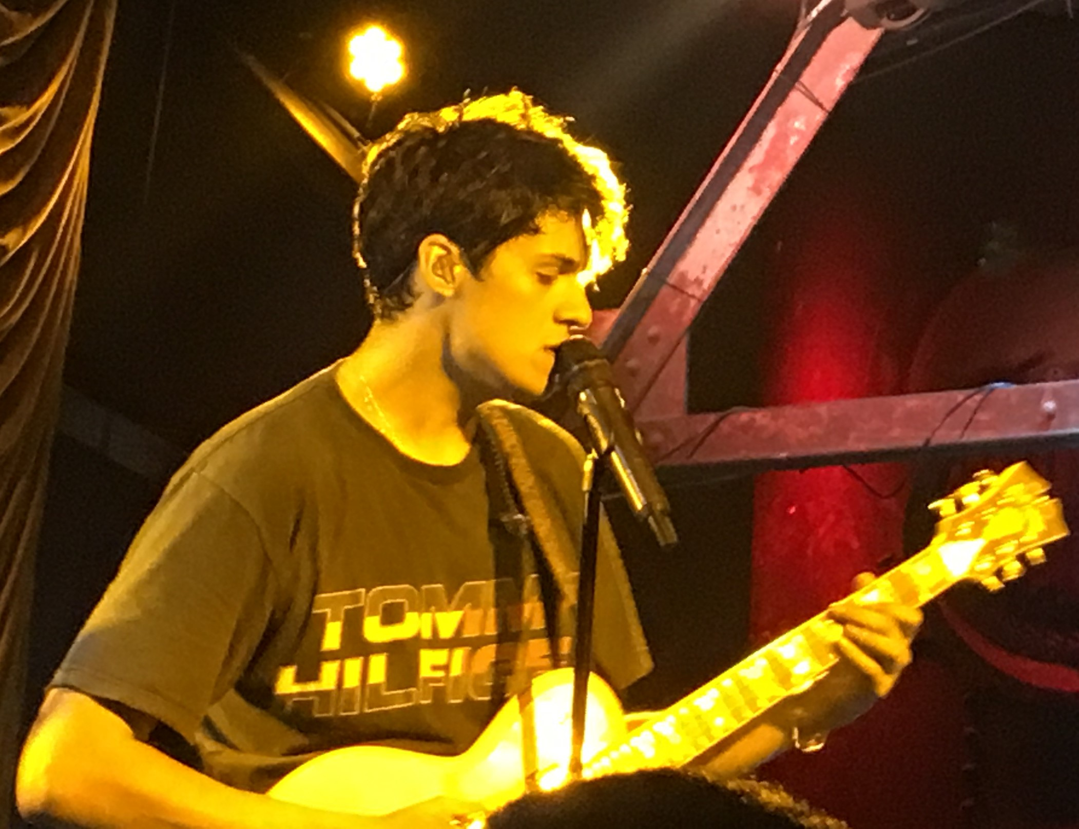 Omar Apollo in concert at The Foundry at The Fillmore Philadelphia on June 1st, 2019.